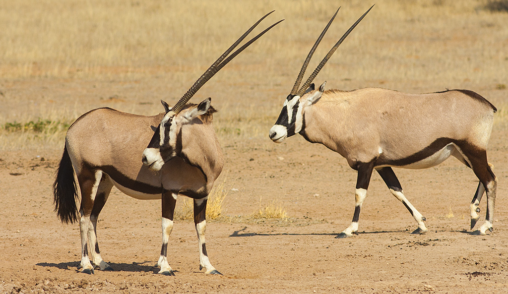 gemsbok or gemsbuck (Oryx gazella). The gemsbok is mainly desert-dwelling from the western regions of Southern Africa, the do not depend on drinking to supply their physiological water needs.